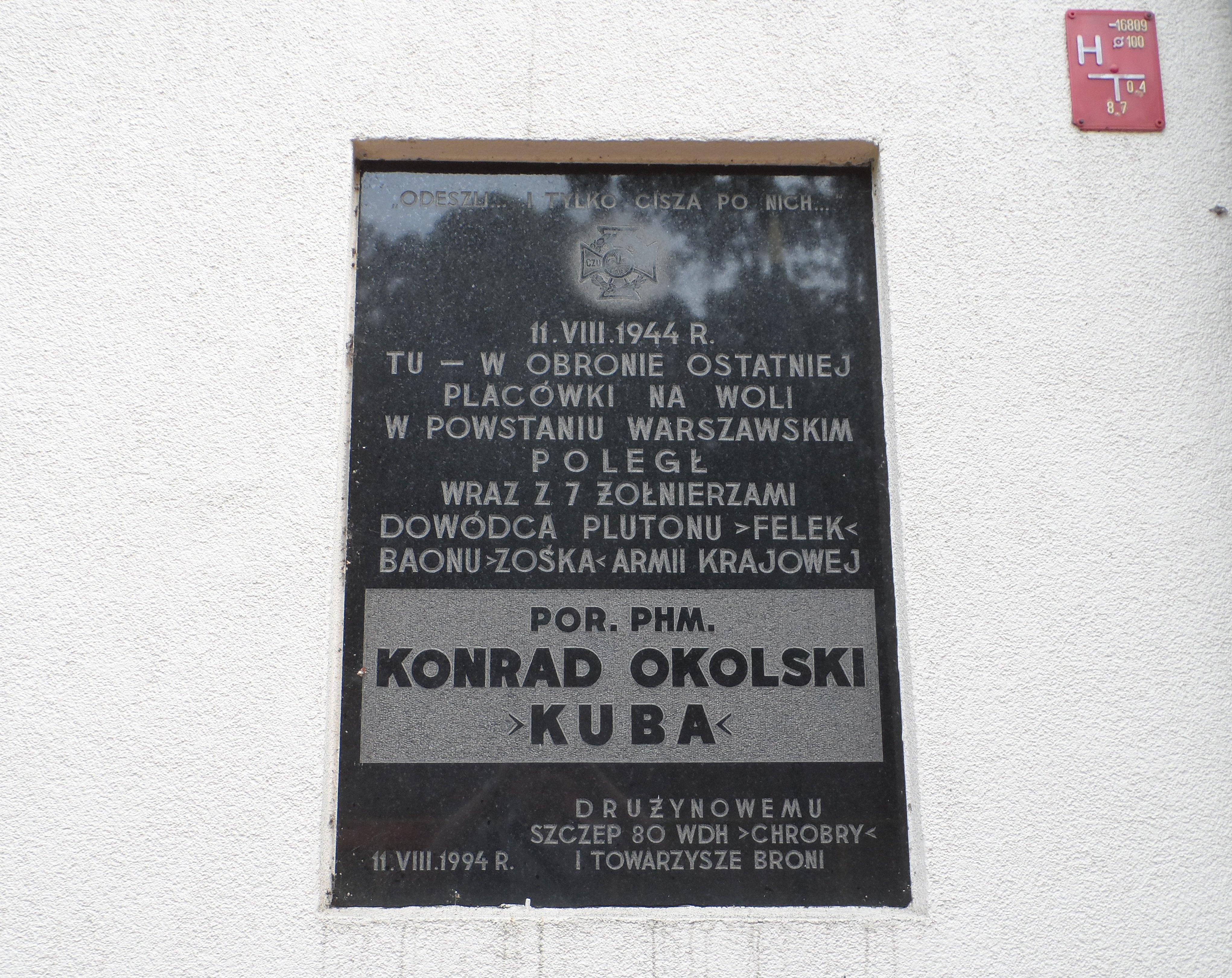 Plaque at 13 Spokojna Street in Warsaw, commemorating Lt. Konrad Okolski (“Kuba”) and his colleagues from Armia Krajowa’s battalion “Zośka”, who fallen during the Warsaw Uprising (on 11th August 1944).